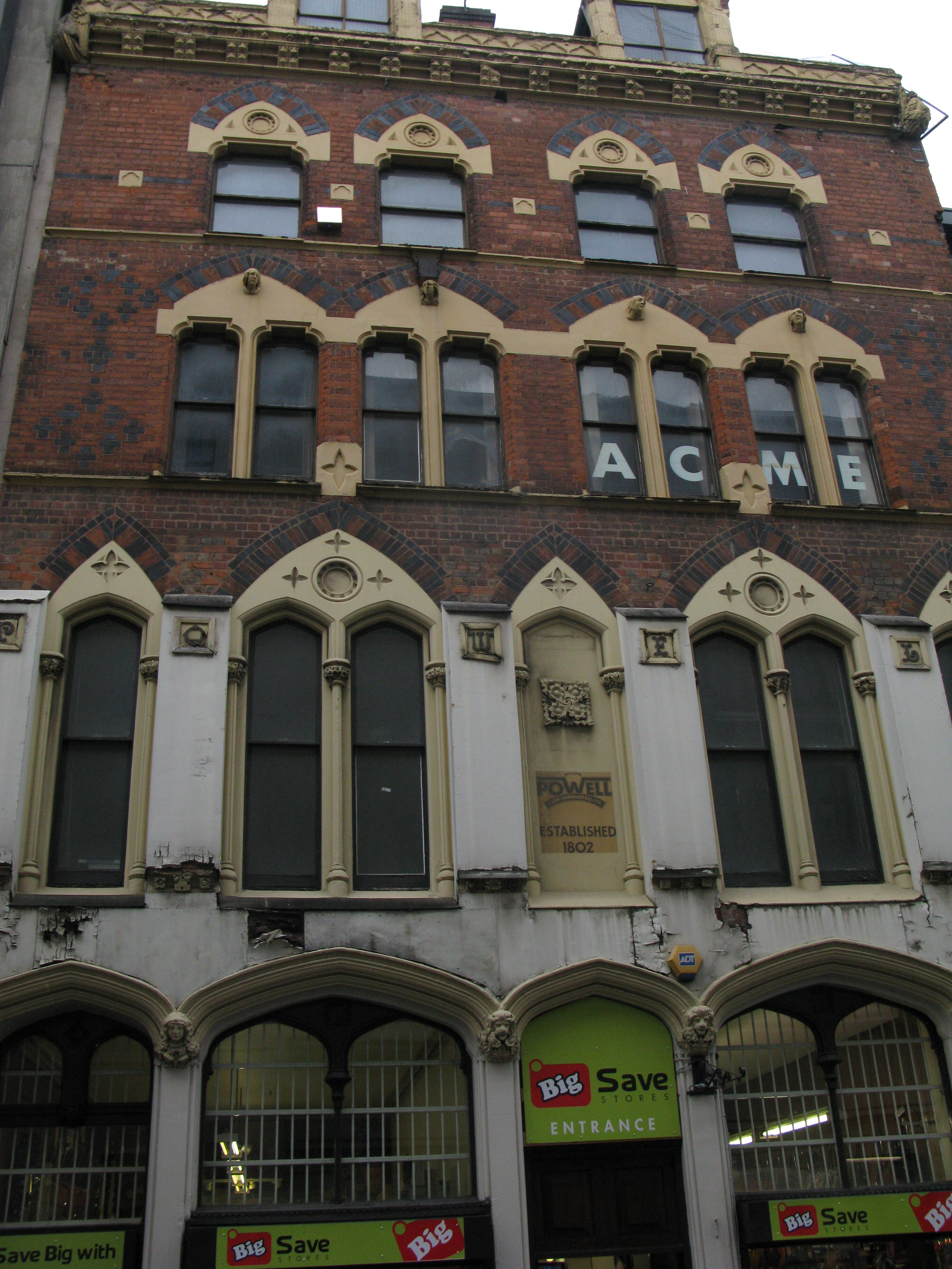 Grade II